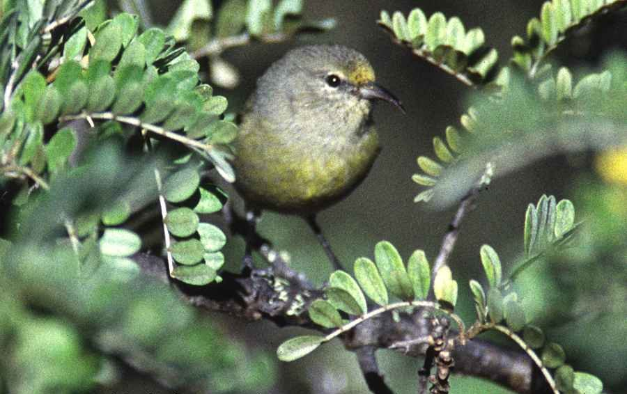 Oahu Amakihi - Oahu, Hawaii